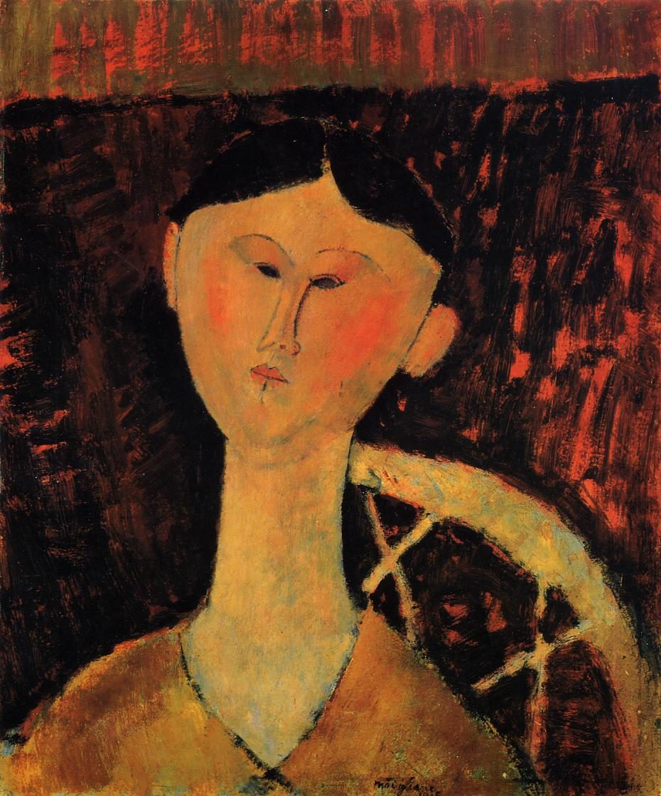 Portrait of Mrs. Hastings